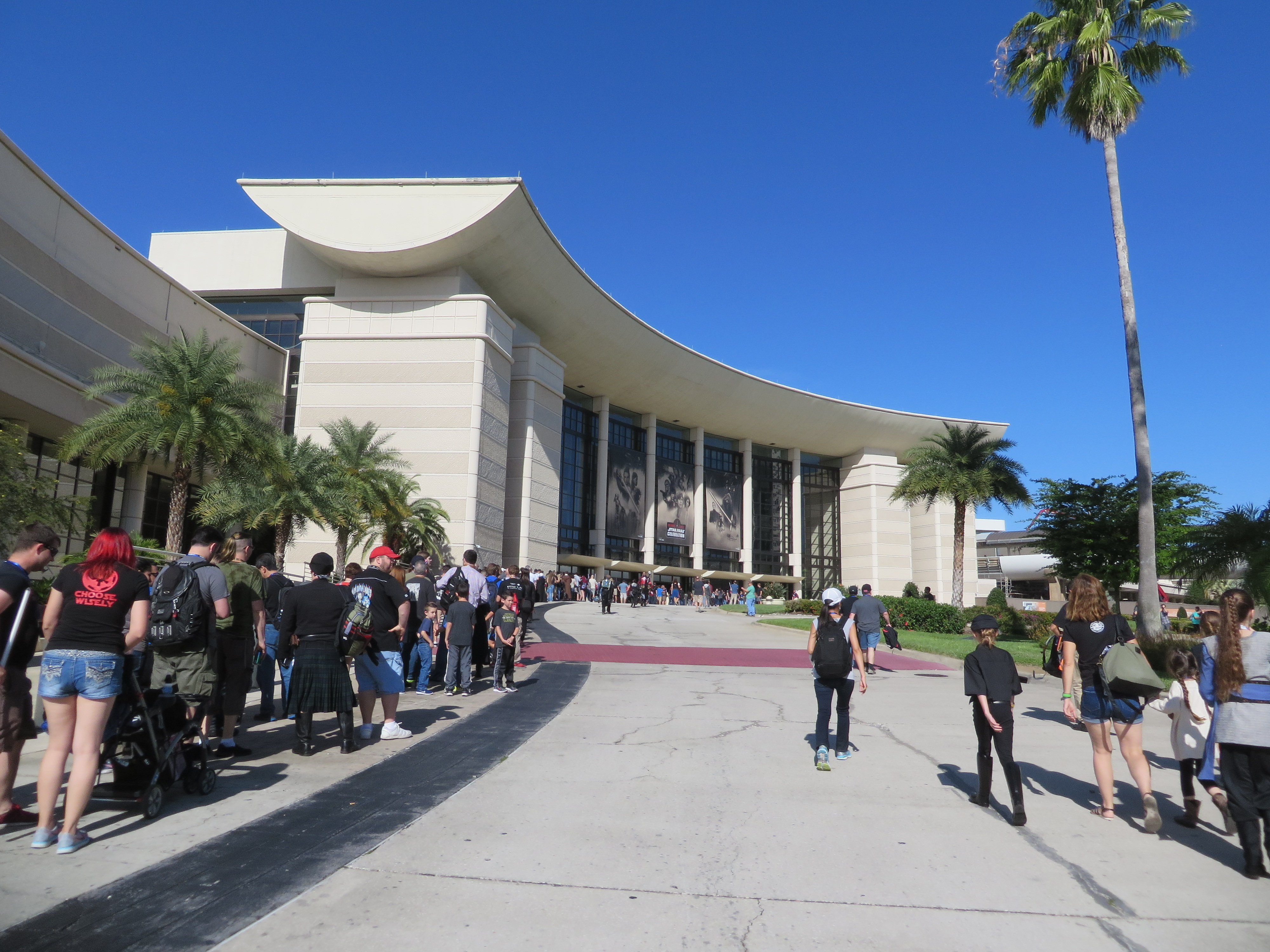 The West C Lobby entrance on Level II of the Orange County Convention Center West Concourse at Star Wars Celebration Orlando.